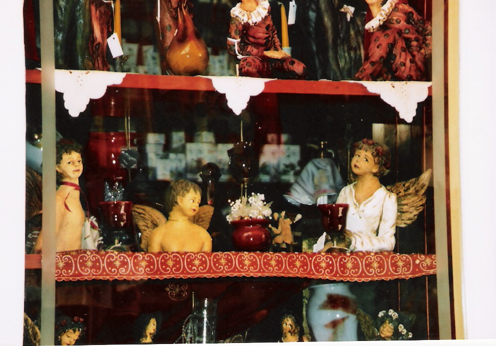 The window of a little shop at Parga (Greece)